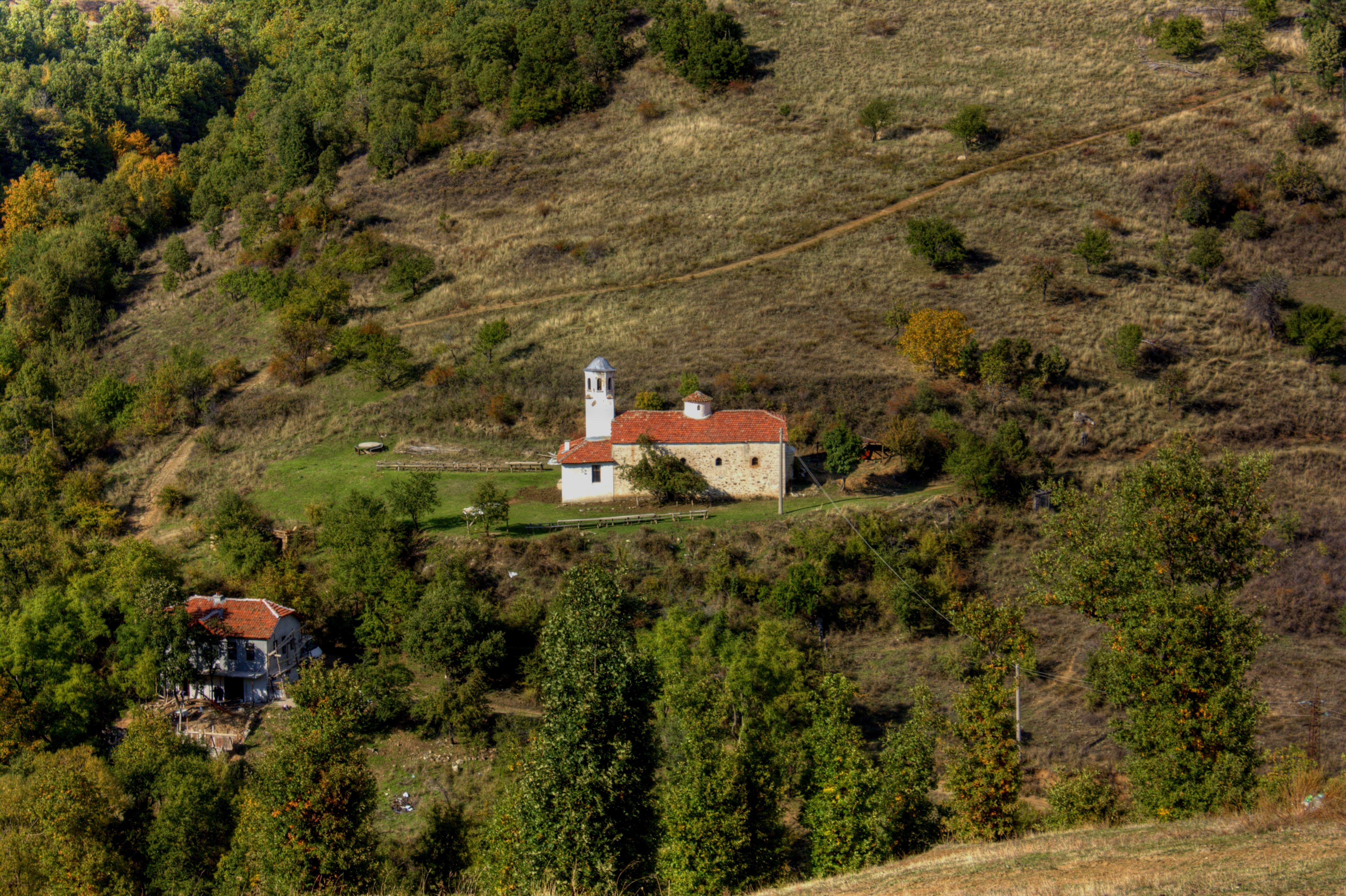 St. Archangel Michael church at village Troskovo, Bulgaria. The church was reconstructed in 1906.